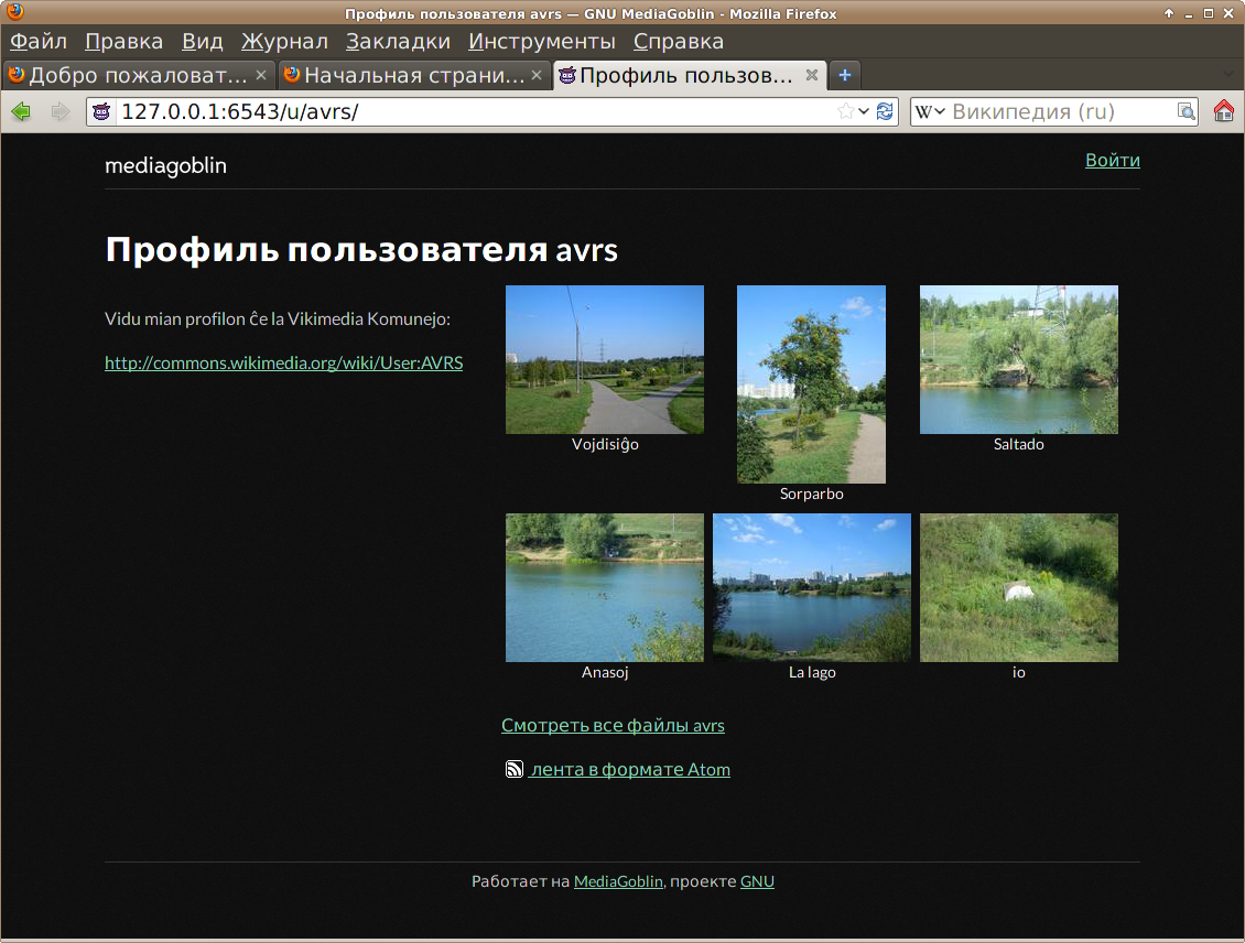 Mozilla Firefox 9.0.1 in Russian, for GNU/Linux x86_64, is displaying a user page at a GNU MediaGoblin 0.2.0 -based website. The GTK theme is “Shiki Dust”.